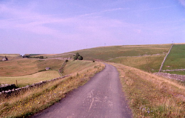 Tissington Trail. Looking north up the Tissington Trail towards the cutting before Parsley Hay Station